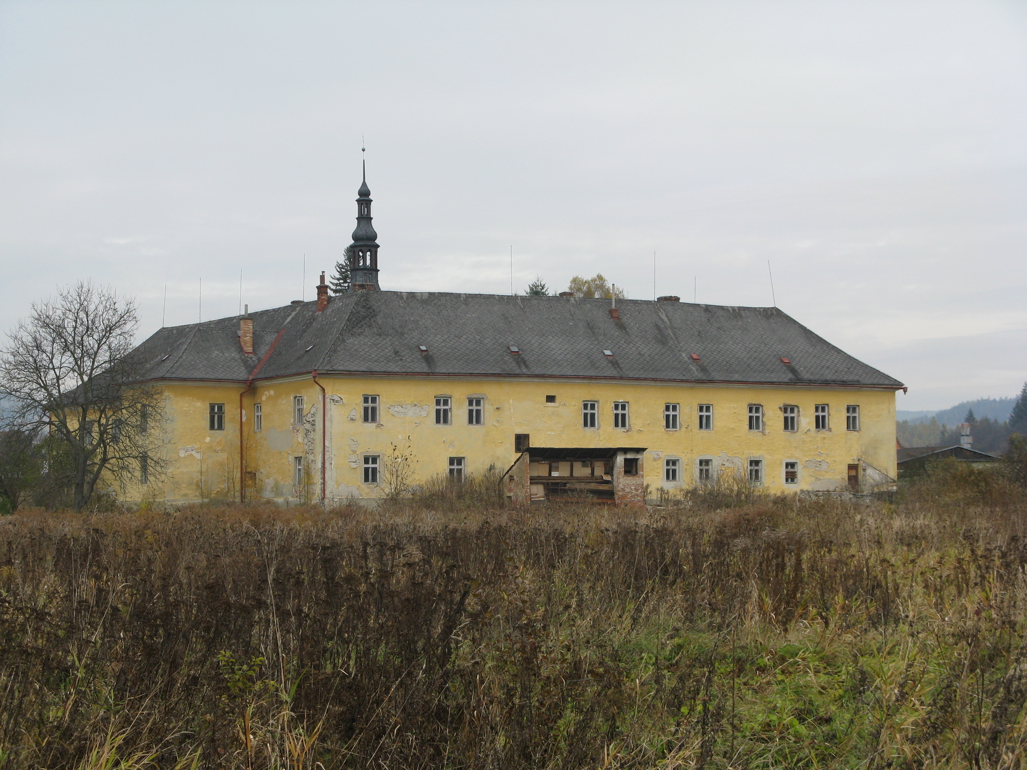 Ruda nad Moravou, Šumperk District, Czechia.